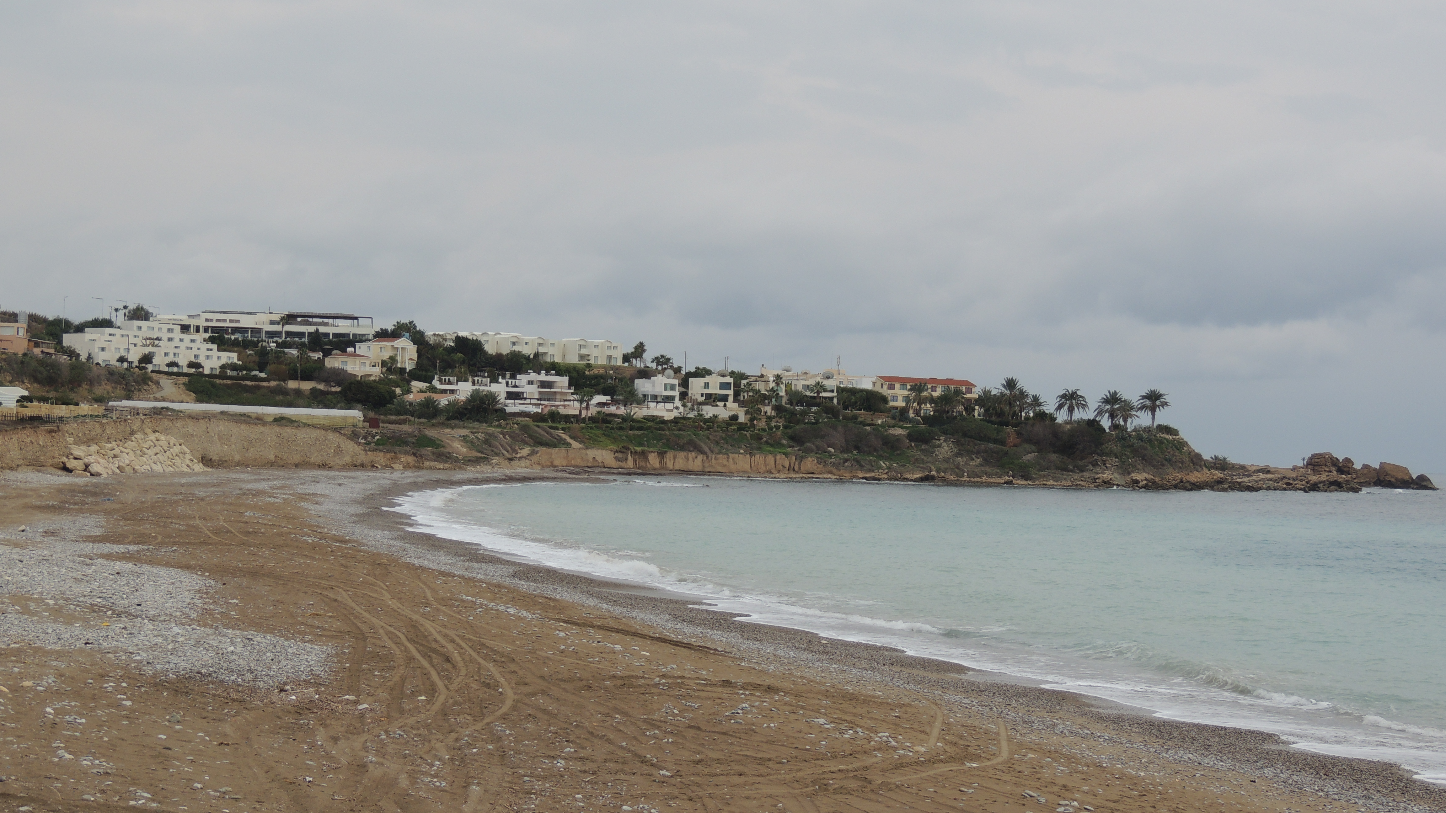 Potima beach, Kissonerga, Cyprus